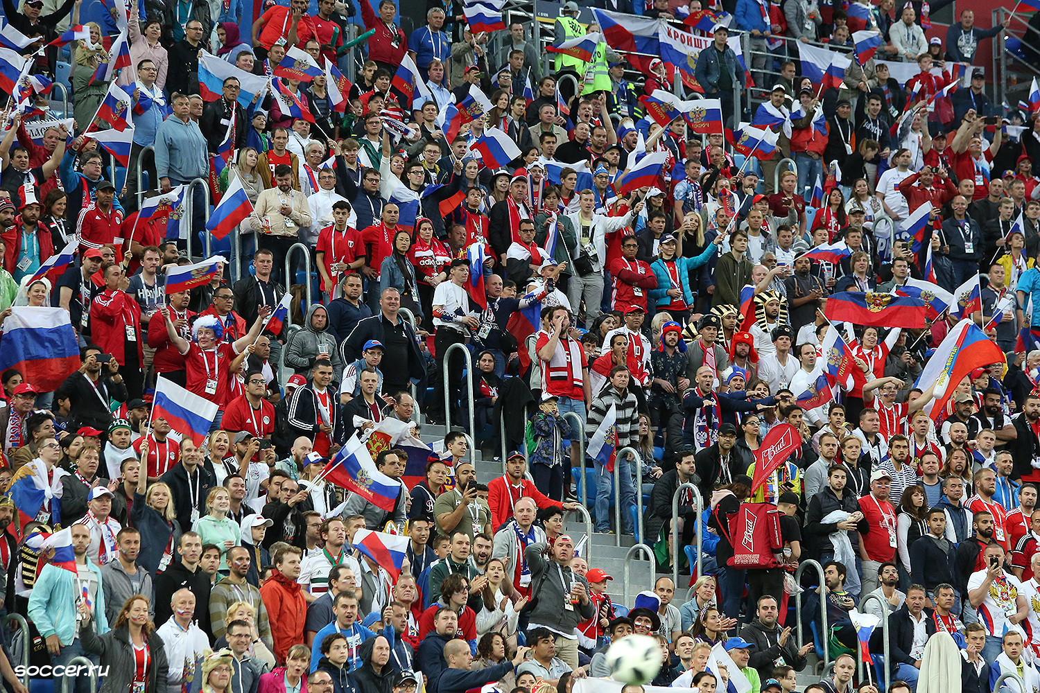 Russia vs Egypt match